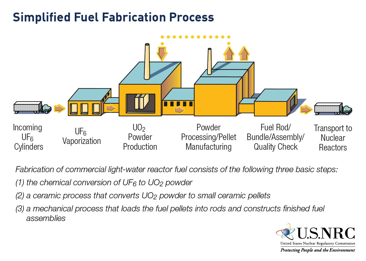 Infographic of the simplified fuel fabrication process from the 2017-2018 Information Digest, NUREG 1350, Volume 29. Published in August 2017. For more information go to: Visit the Nuclear Regulatory Commission's website at To comment on this photo go to Photo Usage Guidelines: Privacy Policy: For additional information contact: OPA Resource.